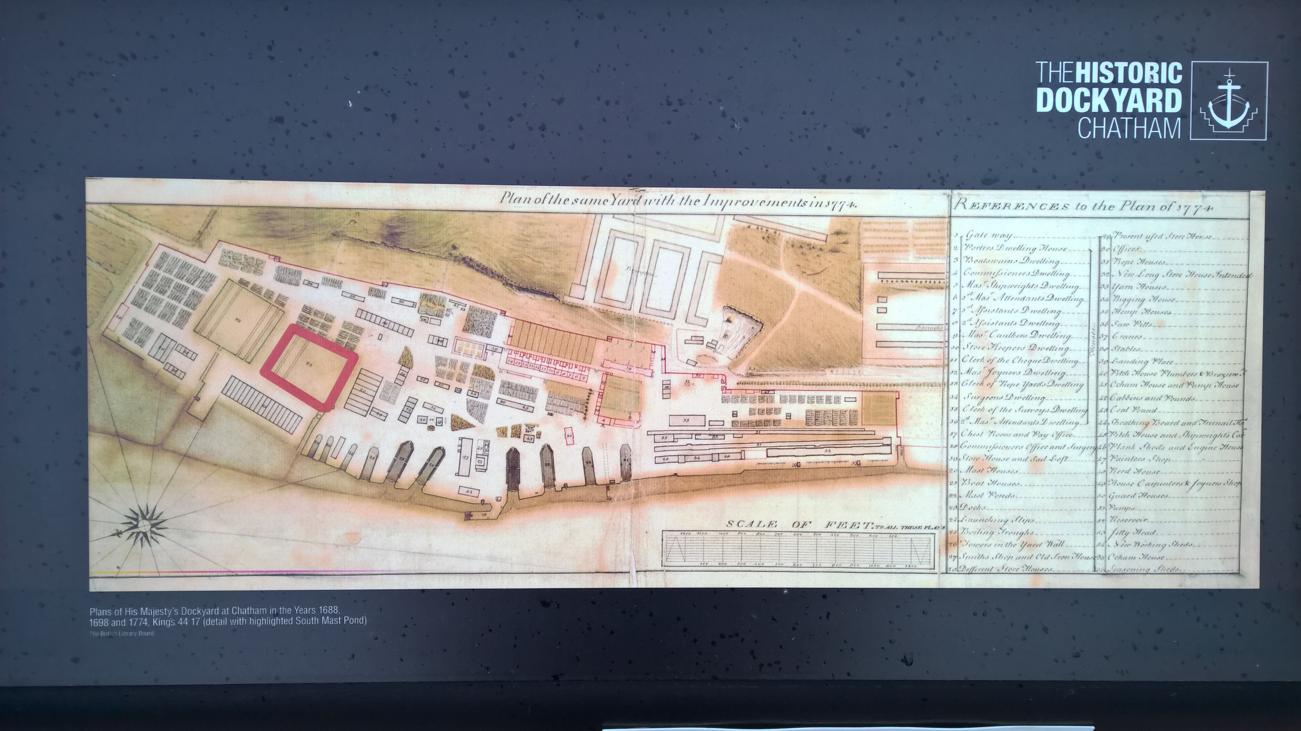 The information panel is located in the car park, built on the site of the South Mast Pond (which is shown highlighted on the reproduced plan). The original is in the British Library (King's 44 17).